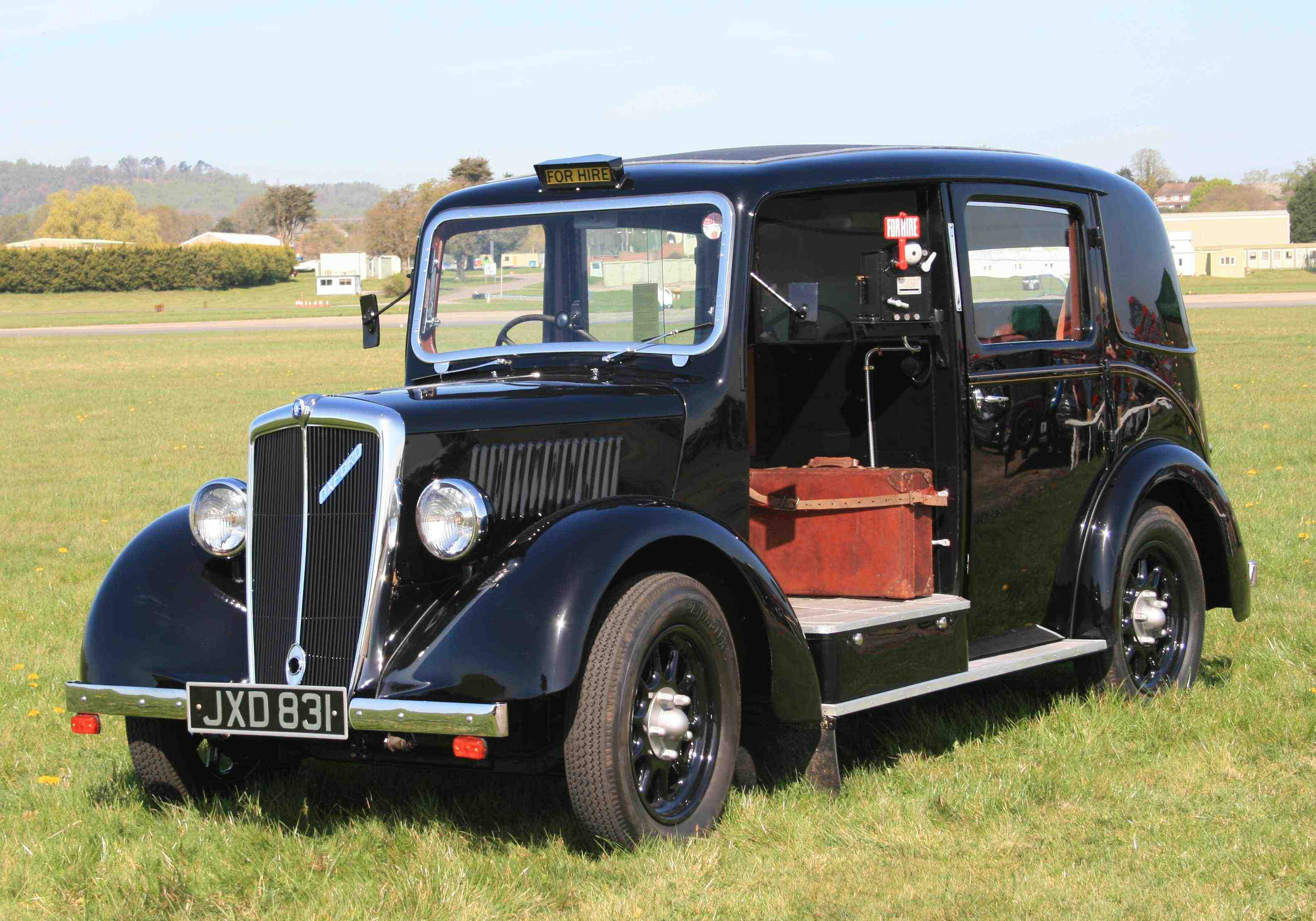 The Series I was the first model of Nuffield Oxford. This example has recently been completely restored